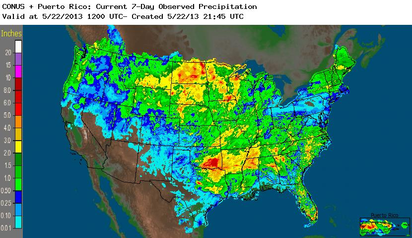 This graphic shows the rainfall between the mornings of May 16 and May 22.